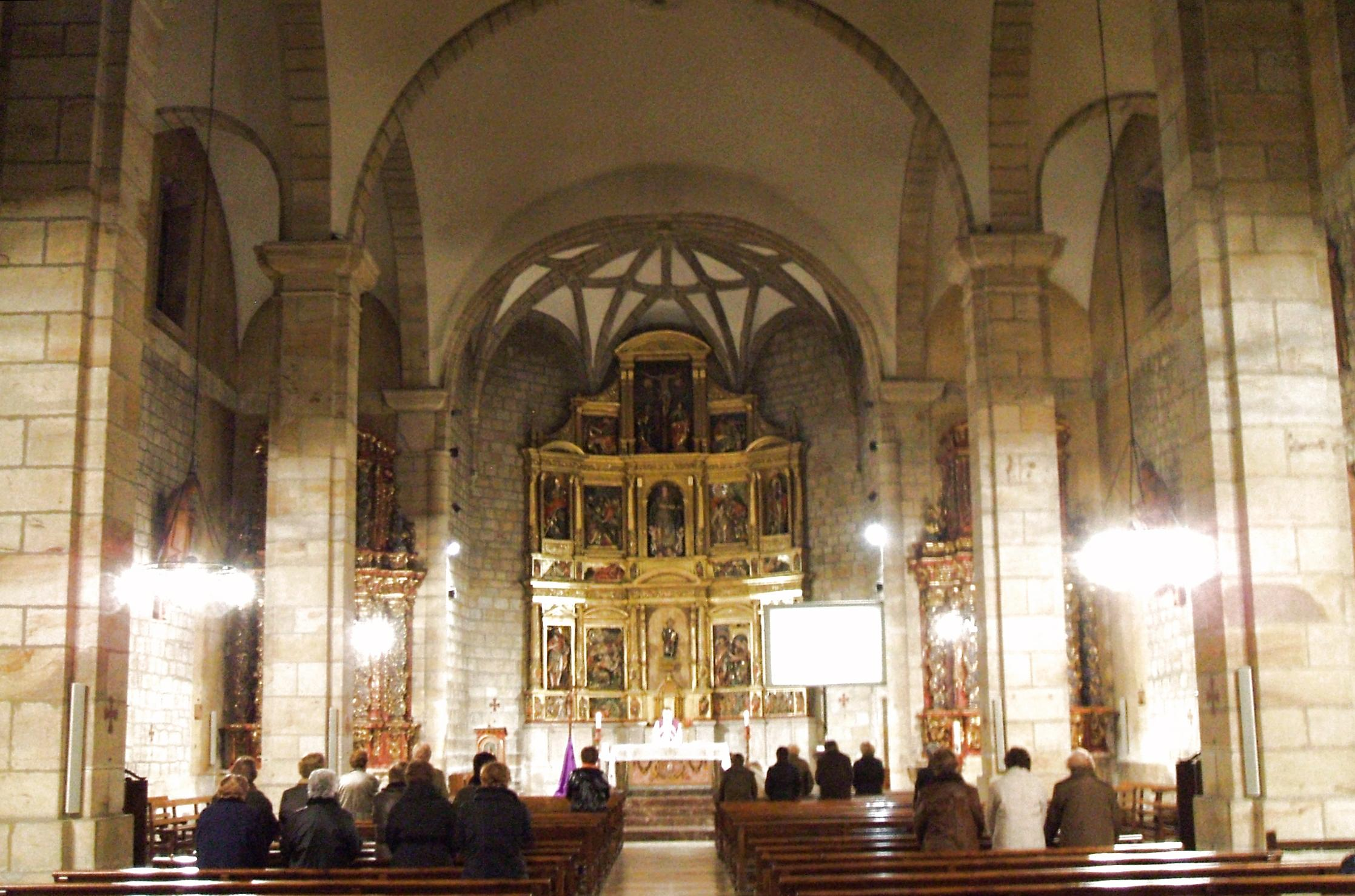 Iglesia parroquial de Nuestra Señora de la Asunción, Alsasua (Navarra, España)